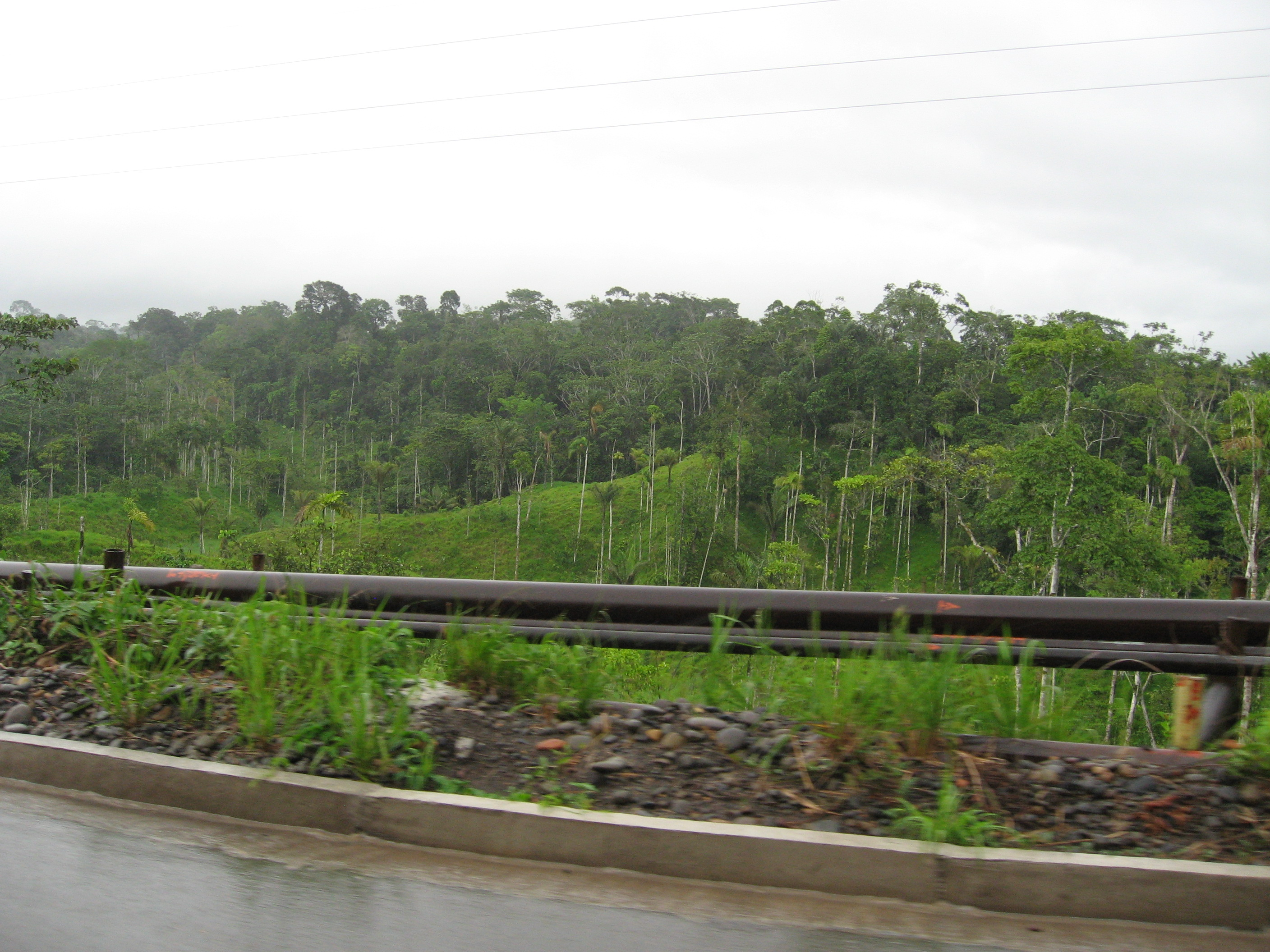 Pipeline and forest in Ecuador.